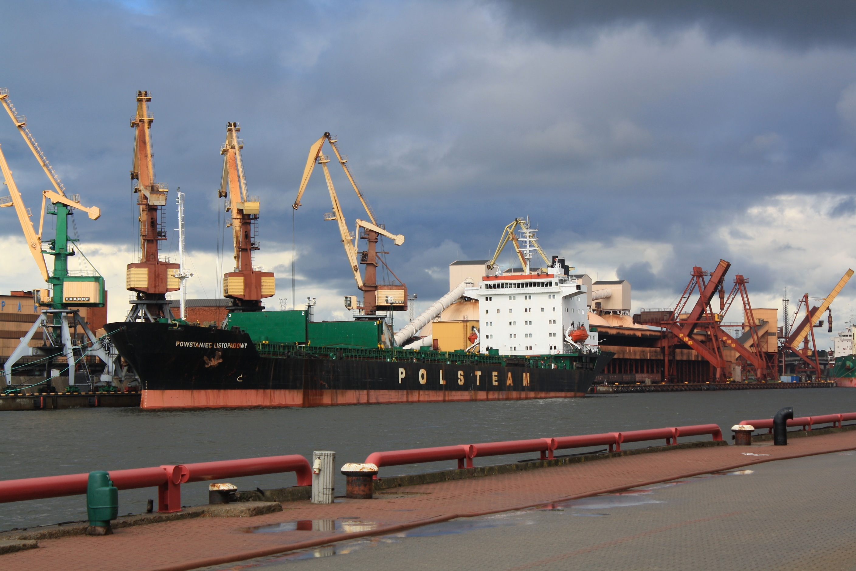 Polish ship "Powstaniec Listopadowy" ("November Insurgent") in the Latvian harbour of Ventspils.